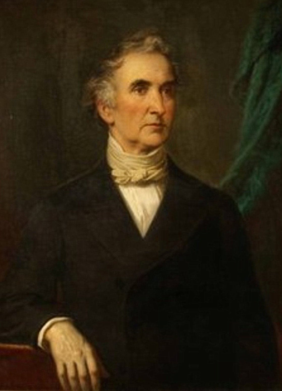 Justus Liebig, former President of the Bavarian Academy of Science